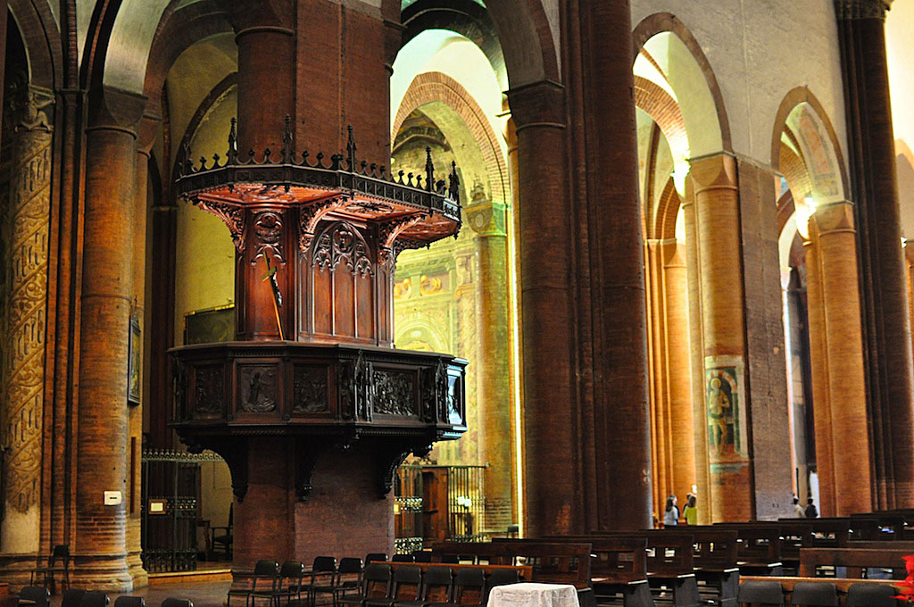 Inside Santa Maria del Carmine, Pavia